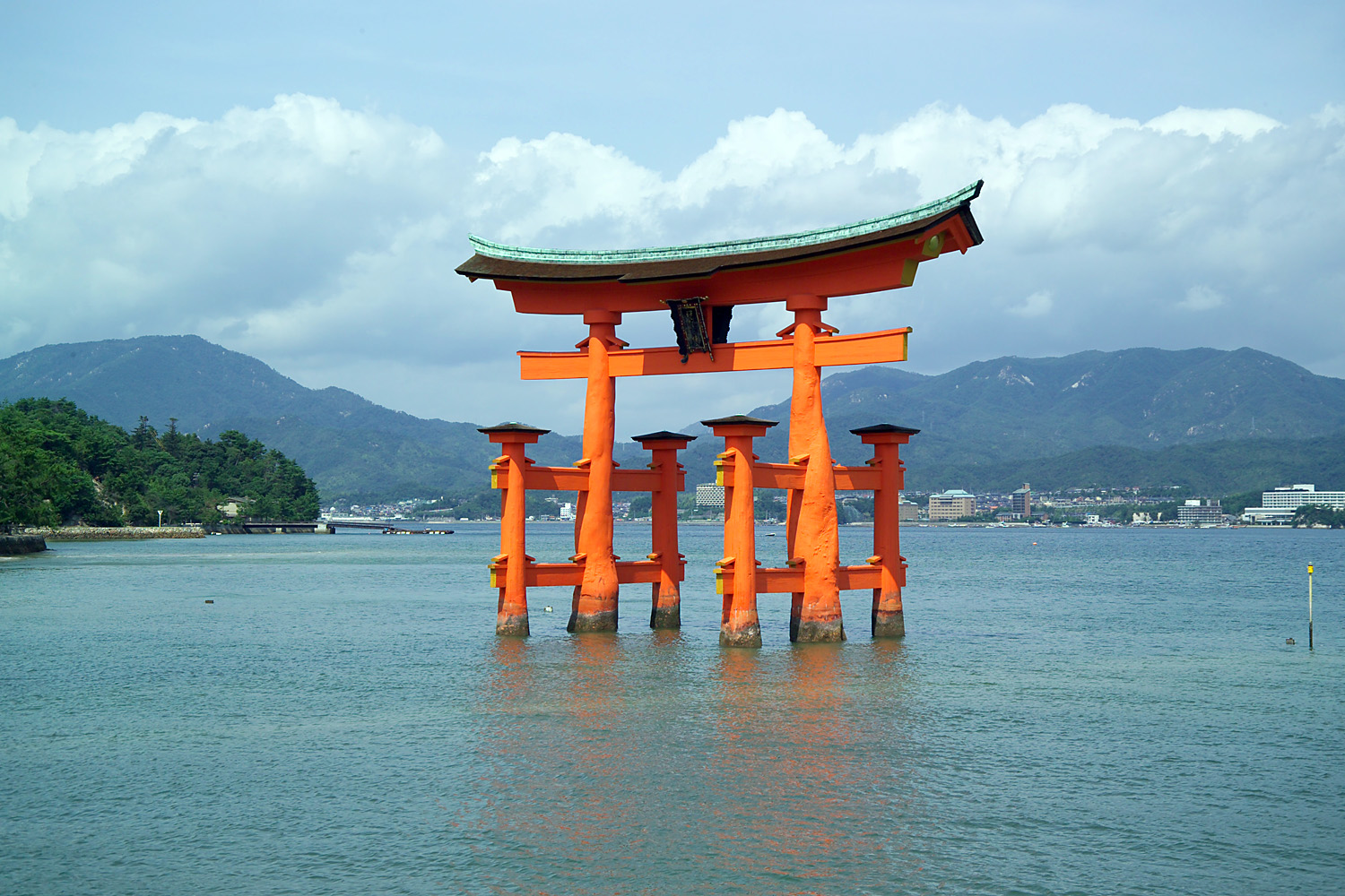 Torii at Itsukushima Shrine, Miyajima, Hiroshima Prefecture, Japan. I took the photo.